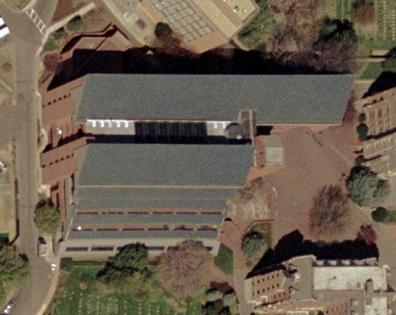 The Georgetown University Intercultural Center aerial view.